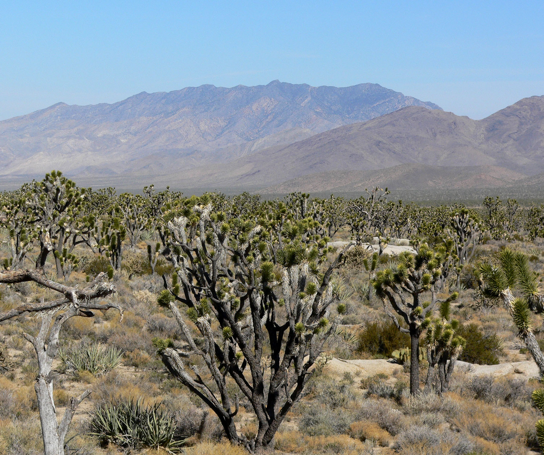 The Mojave Desert Clark Mountain and the Clark Mountain Range with a Joshua Tree forest—(Yucca brevifolia) in the Mojave National Preserve, seen from Cima Dome in southeastern California.